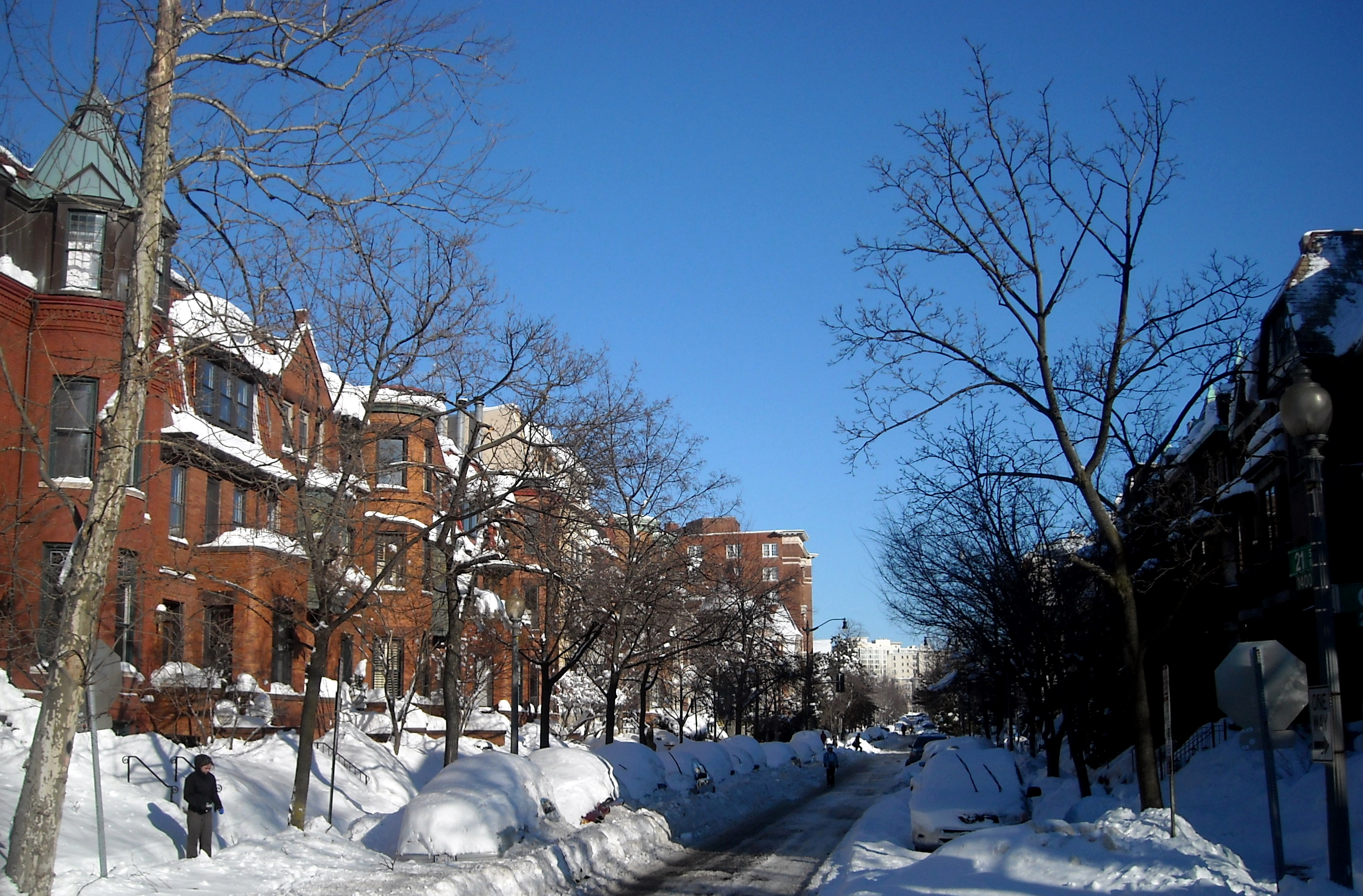 Facing north on the 1400 block of 21st Street, N.W., in the Dupont Circle neighborhood of Washington, D.C., following the Second North American blizzard of 2010.